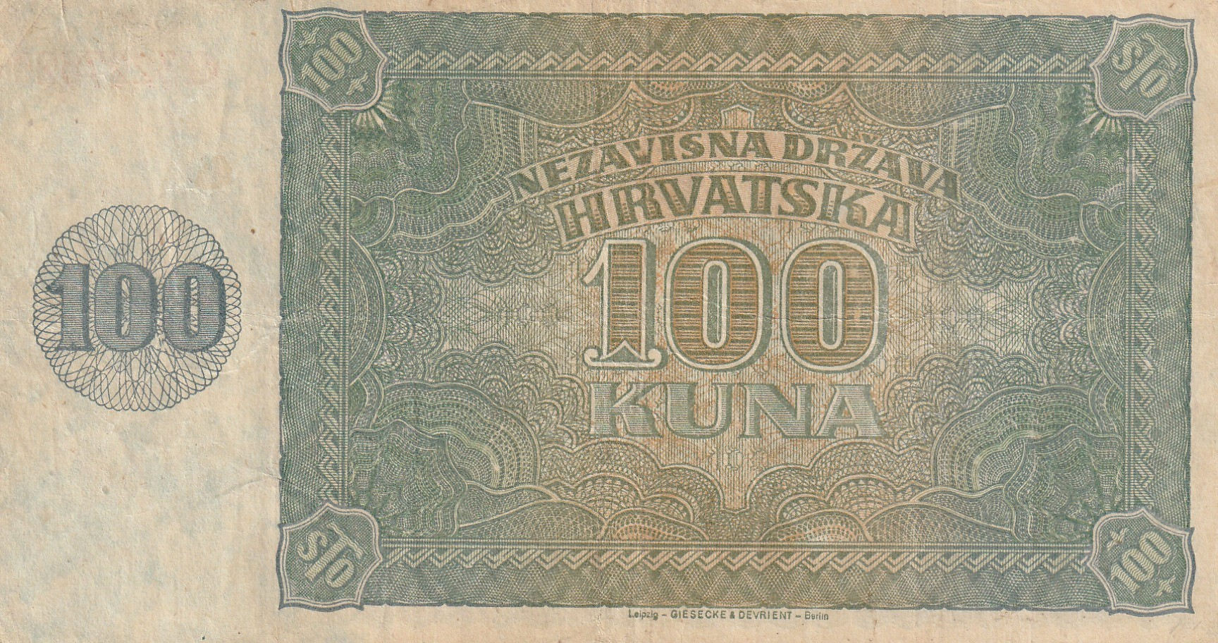 100 kuna 26. svibnja 1941.